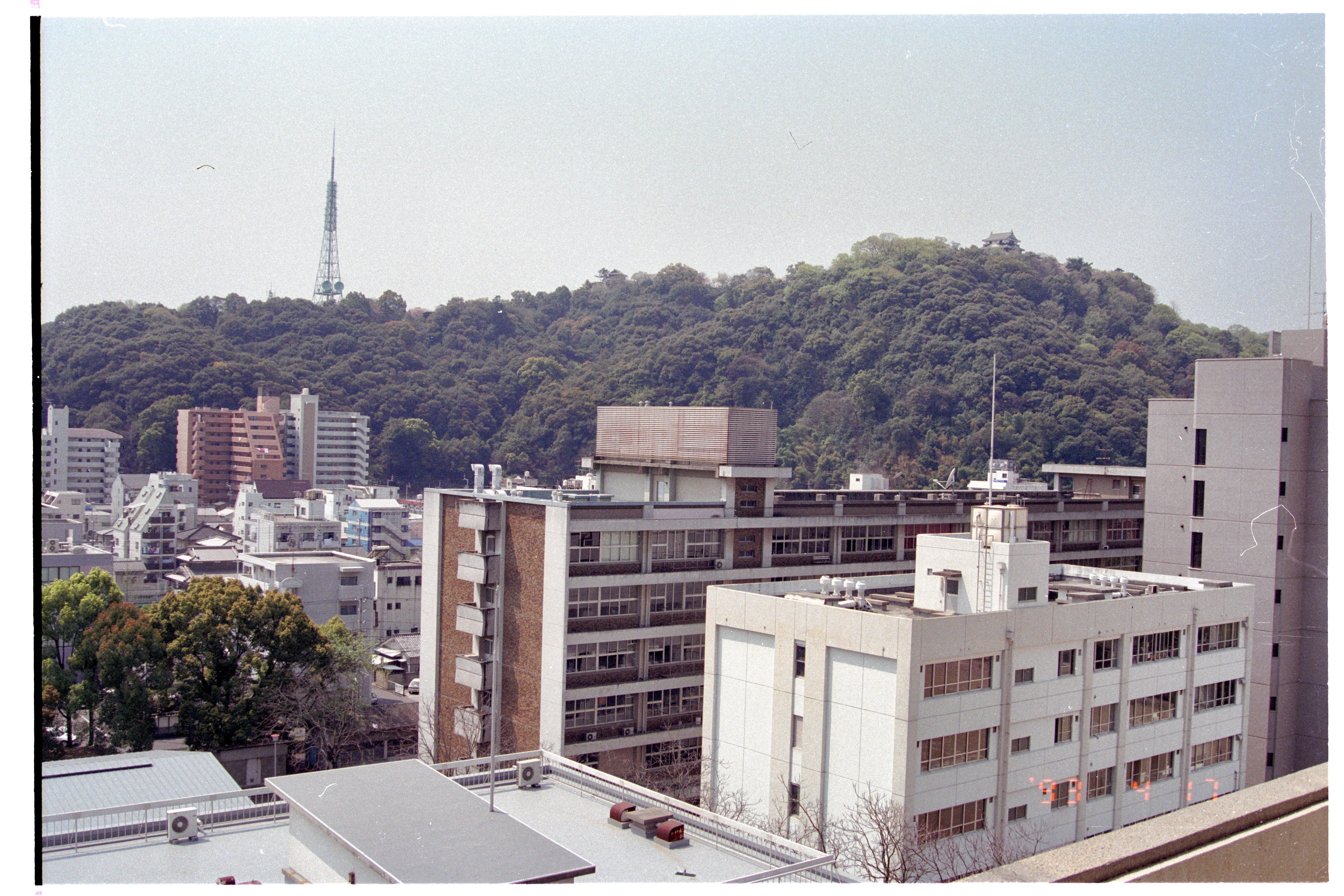 A view from Ehime University. Photograph taken by the original uploader on 17 April 1993.